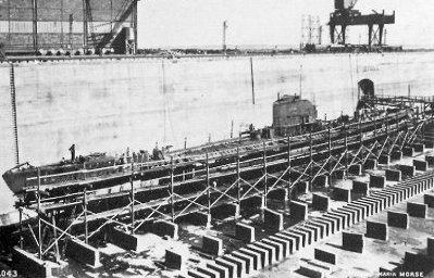 French sumbarine Morse, of the Requin class